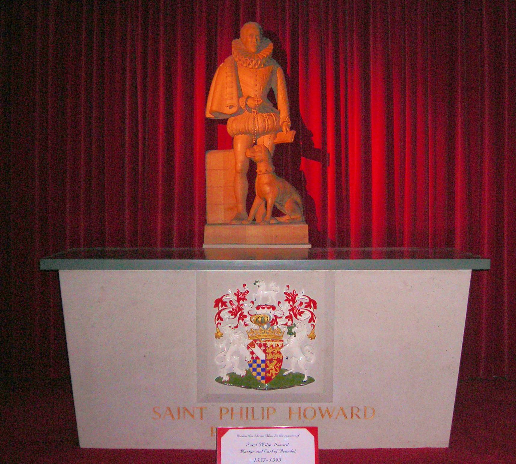 Shrine of St Philip Howard, Arundel Cathedral, Sussex, England.